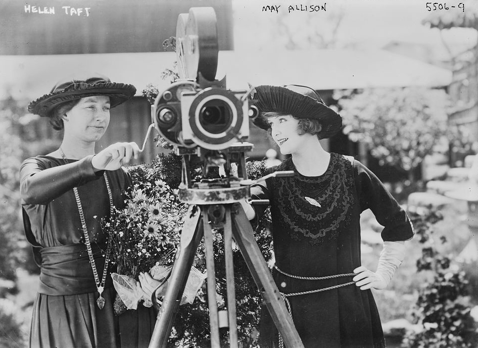 Helen Taft (left) and May Allison (right)